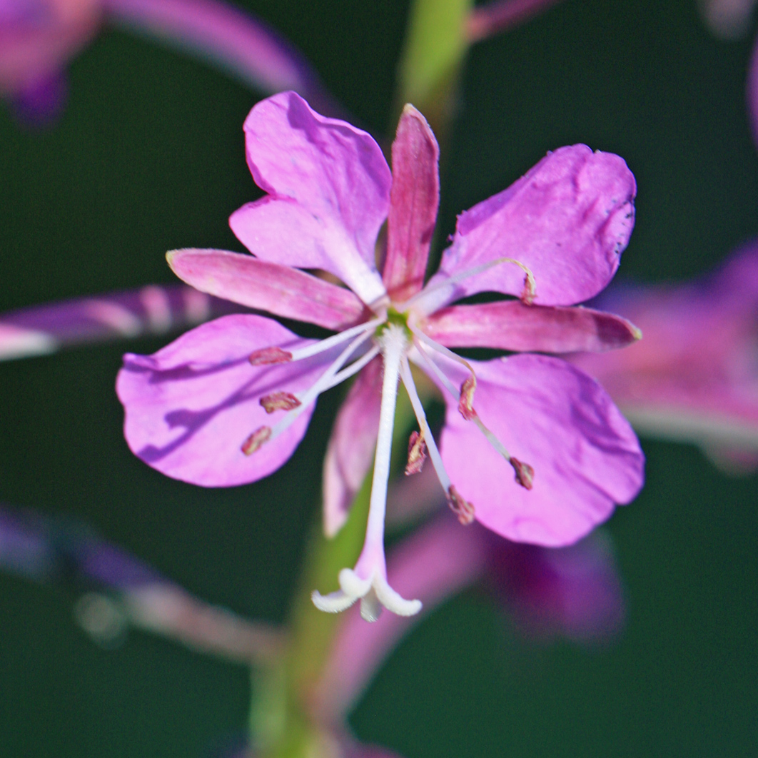 Fireweed (Epilobium angustifolium), showing 4sepals, 4petals, 8 stamens, and 4-fold pistil. At 6600ft along Lower Rock Creek, Mono County, California.